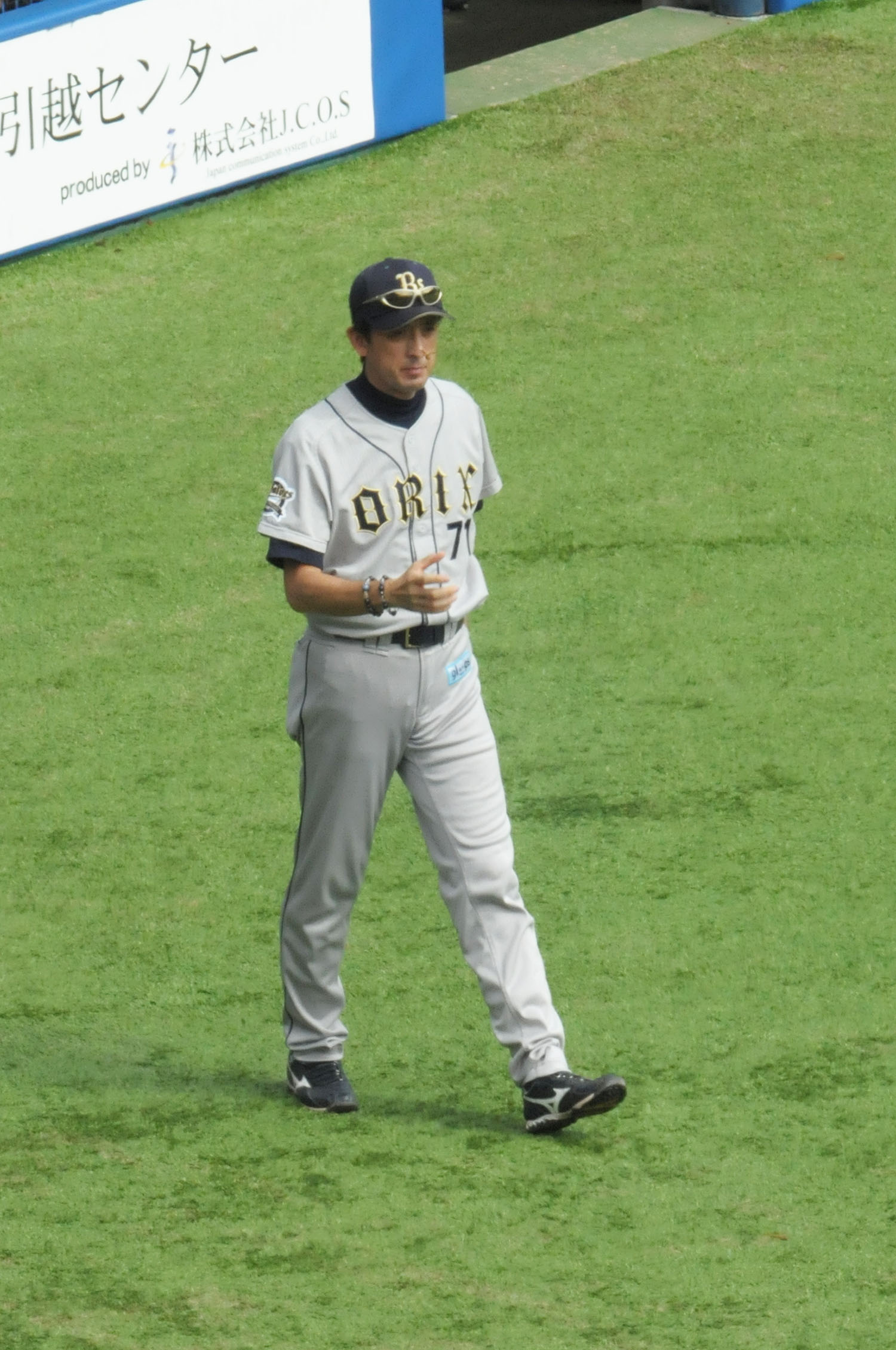 Nobuyuki Hoshino, coach of the Orix Buffaloes, at QVC Marine Field.